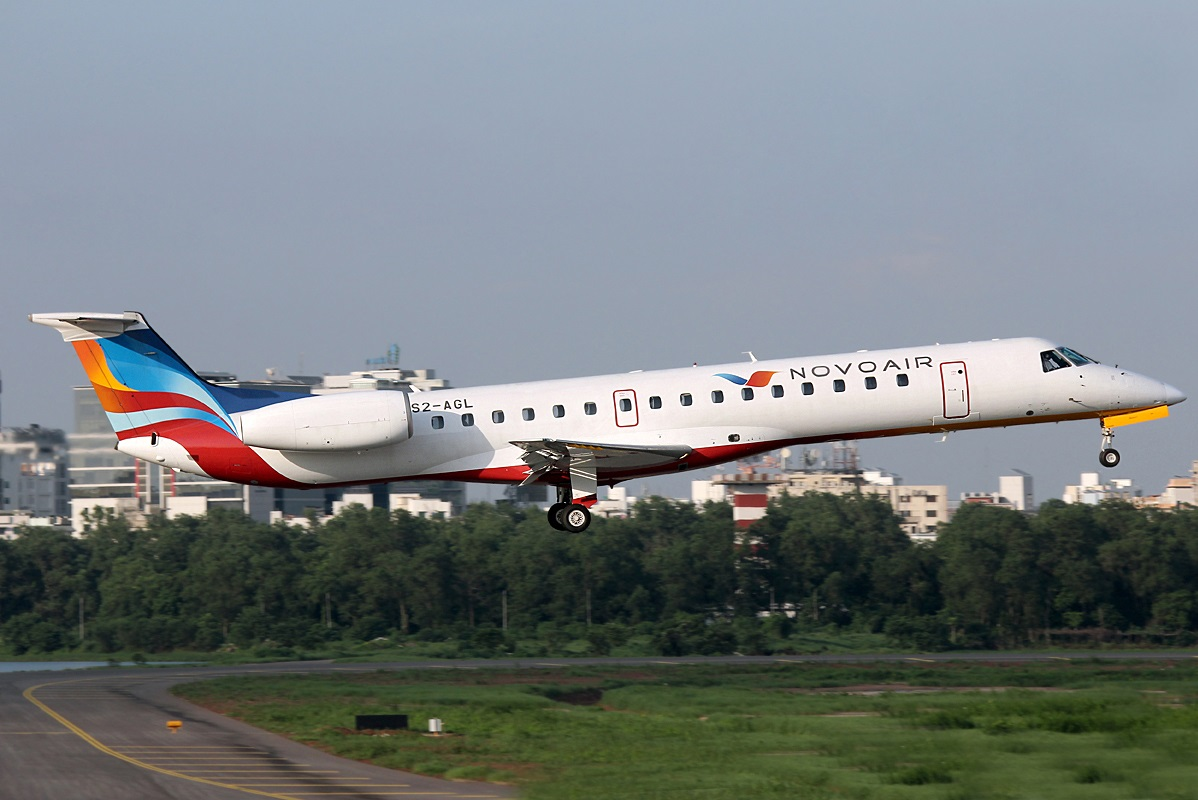 Embraer ERJ-145 landing at DAC/VGHS.